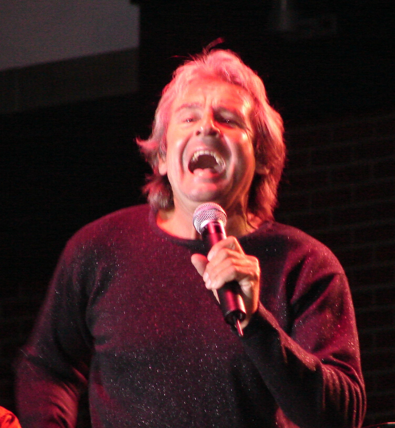 British singer Davy Jones (member of The Monkees) performing at a free concert in Geneva, Illinois, USA (see also [1] and [2])